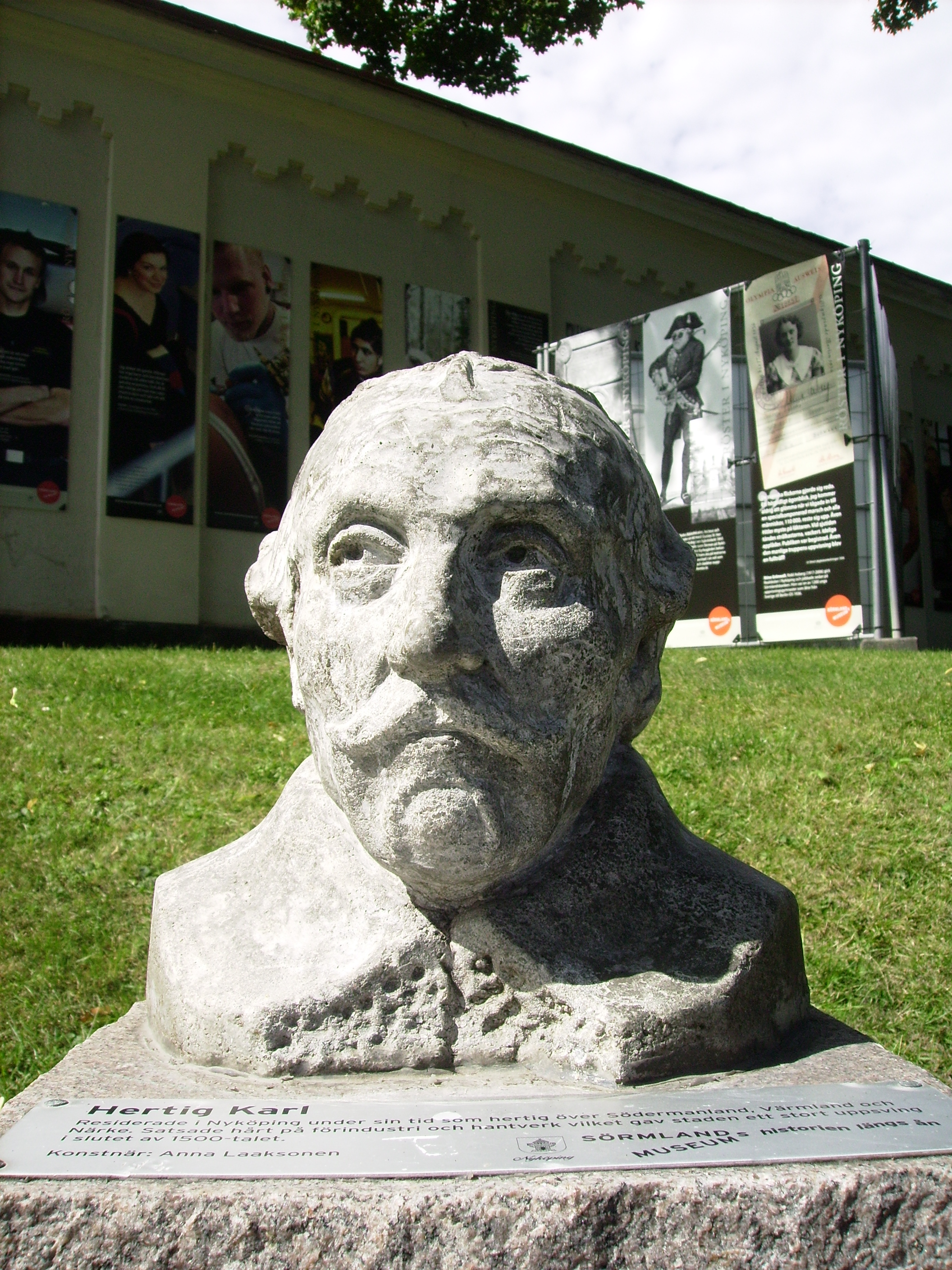 Picture of statue of Swedish king Karl IX in Nyköping